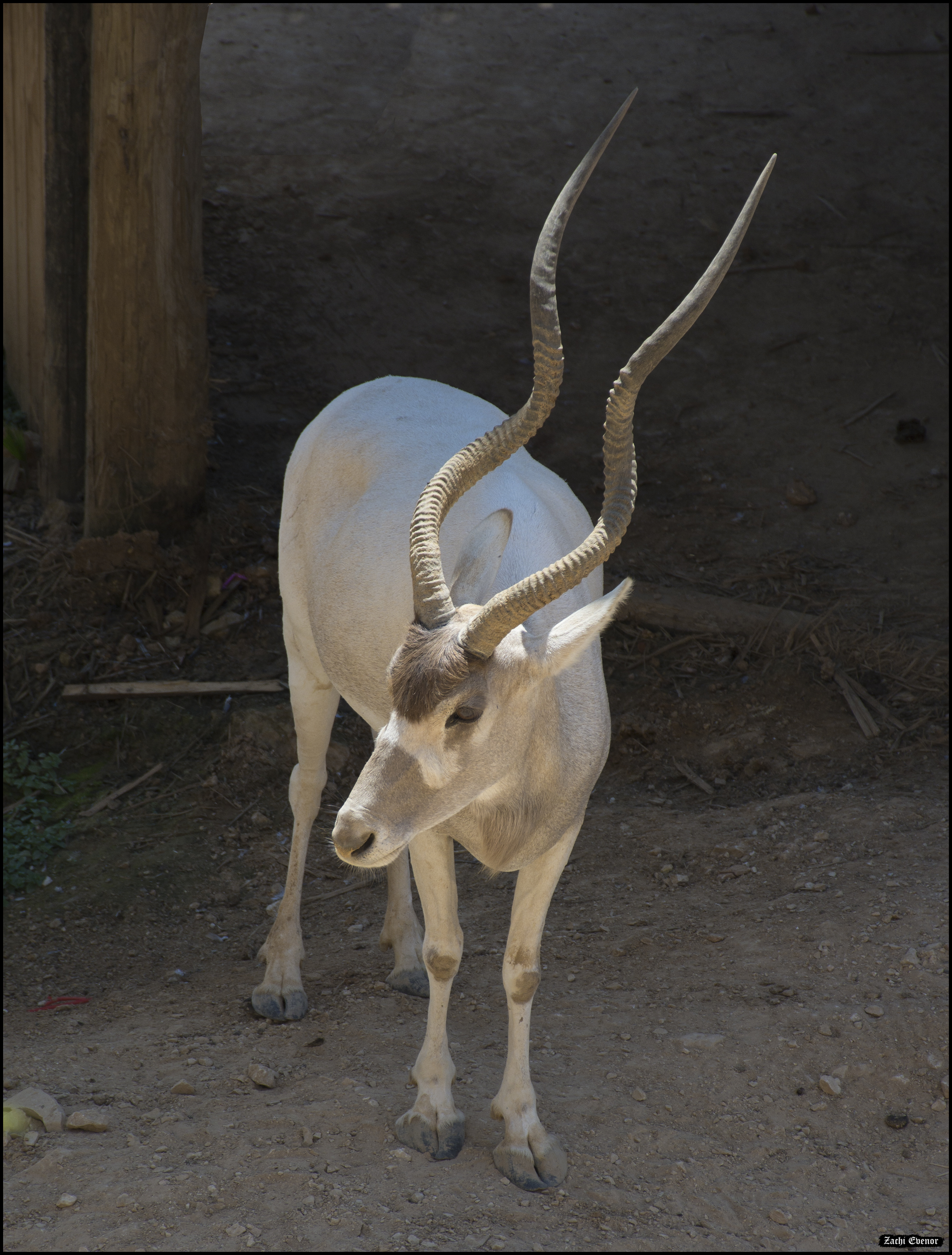 Addax nasomaculatus, Jerusalem Biblical Zoo, Jerusalem, Israel